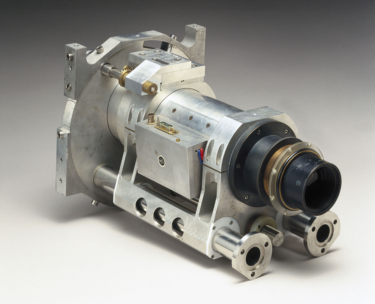 This prototype was developed by Professor Alex Boksenberg (former Director of the Royal Greenwich Observatory) and was used on the 200-inch Hale Telescope at Mount Palomar. It was constructed by the Department of Physics and Astronomy at University College, London, and is an extremely sensitive camera that can virtually detect a single photon. A notable example of this type of detector is to be found in the faint object camera on the Hubble Space Telescope.